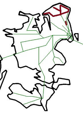 Map of railways on Zealand (Sjælland) in Denmark with the private railway compagny Hovedstadens Lokalbaner in brown.